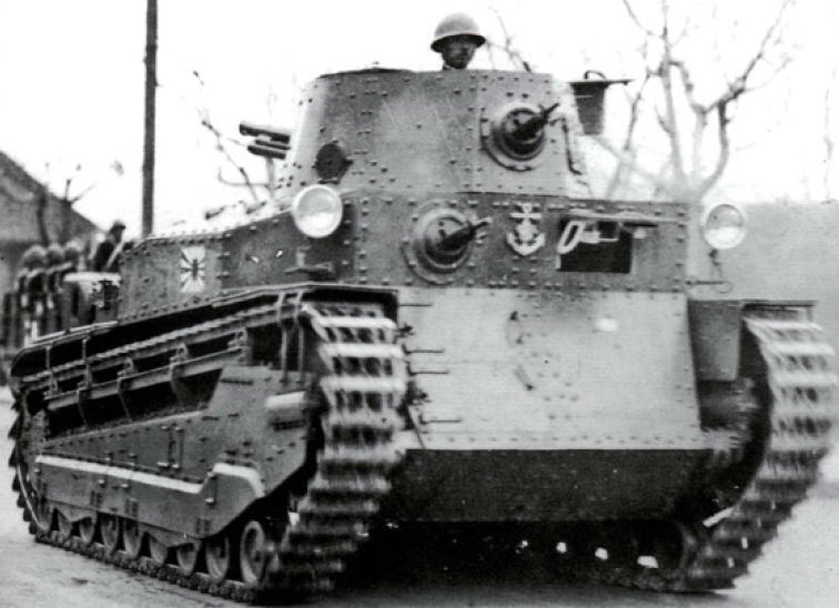 A Type 89A I-Go tank used by Special Navy Landing Forces of the Imperial Japanese Navy